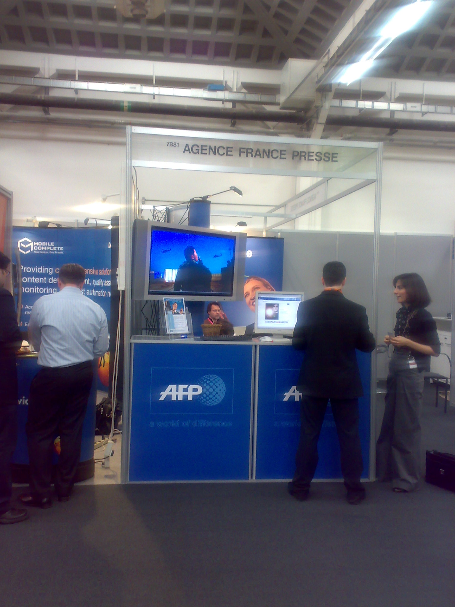 AFP stand at Barcelona GSMA 2008